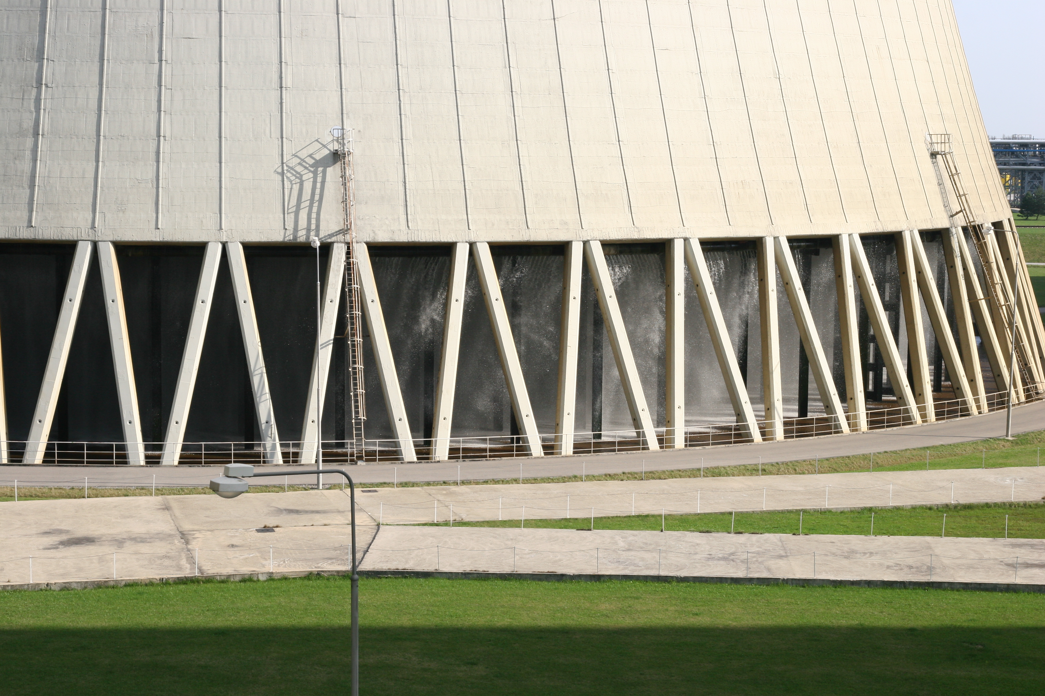 Bottom part of cooling tower in Temelín power plant (CZ)